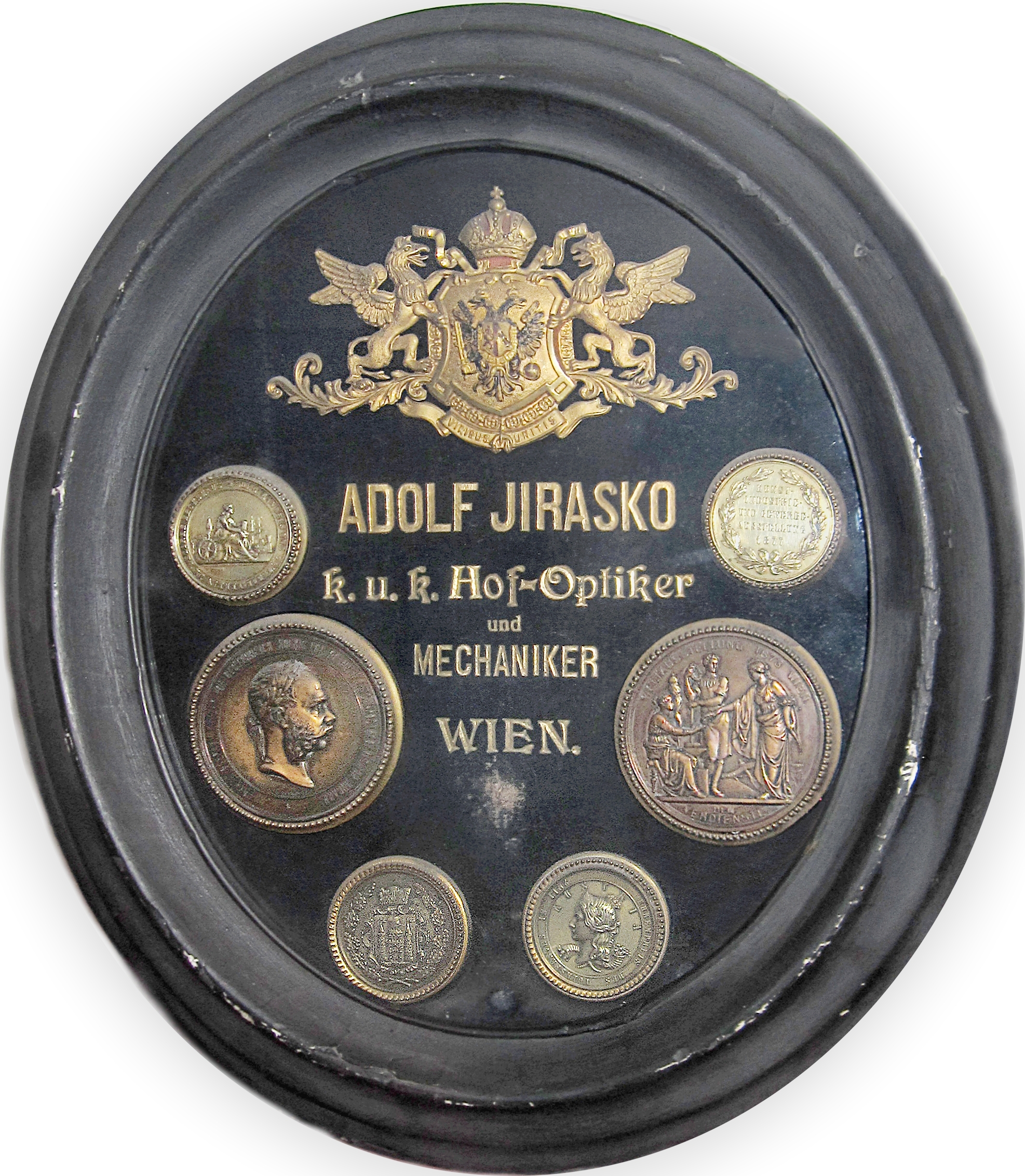 Old medals won by Adolf Jirasko, optical purveyor to the Imperial and Royal Court in Vienna. Image taken at an exposition in the Wiener Neustadt civic archive.